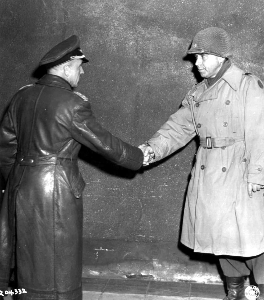 10 April 1945: Wedtlenstedter Schleuse, near Braunschweig, Germany: Generalleutnant Karl Veith (left) last commander of Braunschweig Garrison and General Leland S. Hobbs (right) of 30th US Infantry Division shake hands before negotiations regarding the unconditional surrender of Braunschweig start.